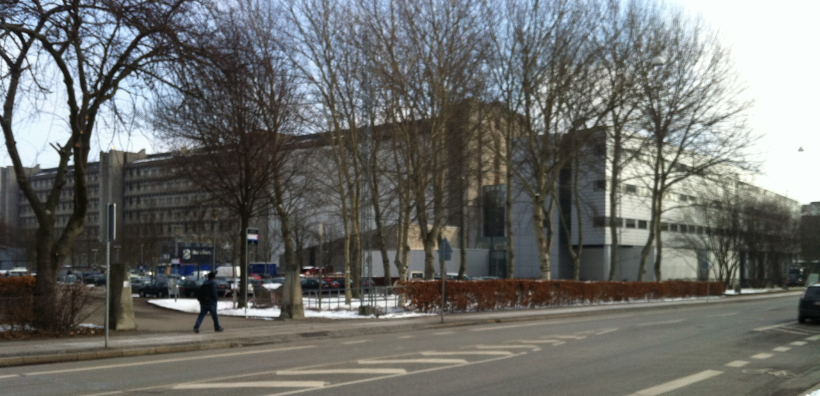 Danish School of Agriculture